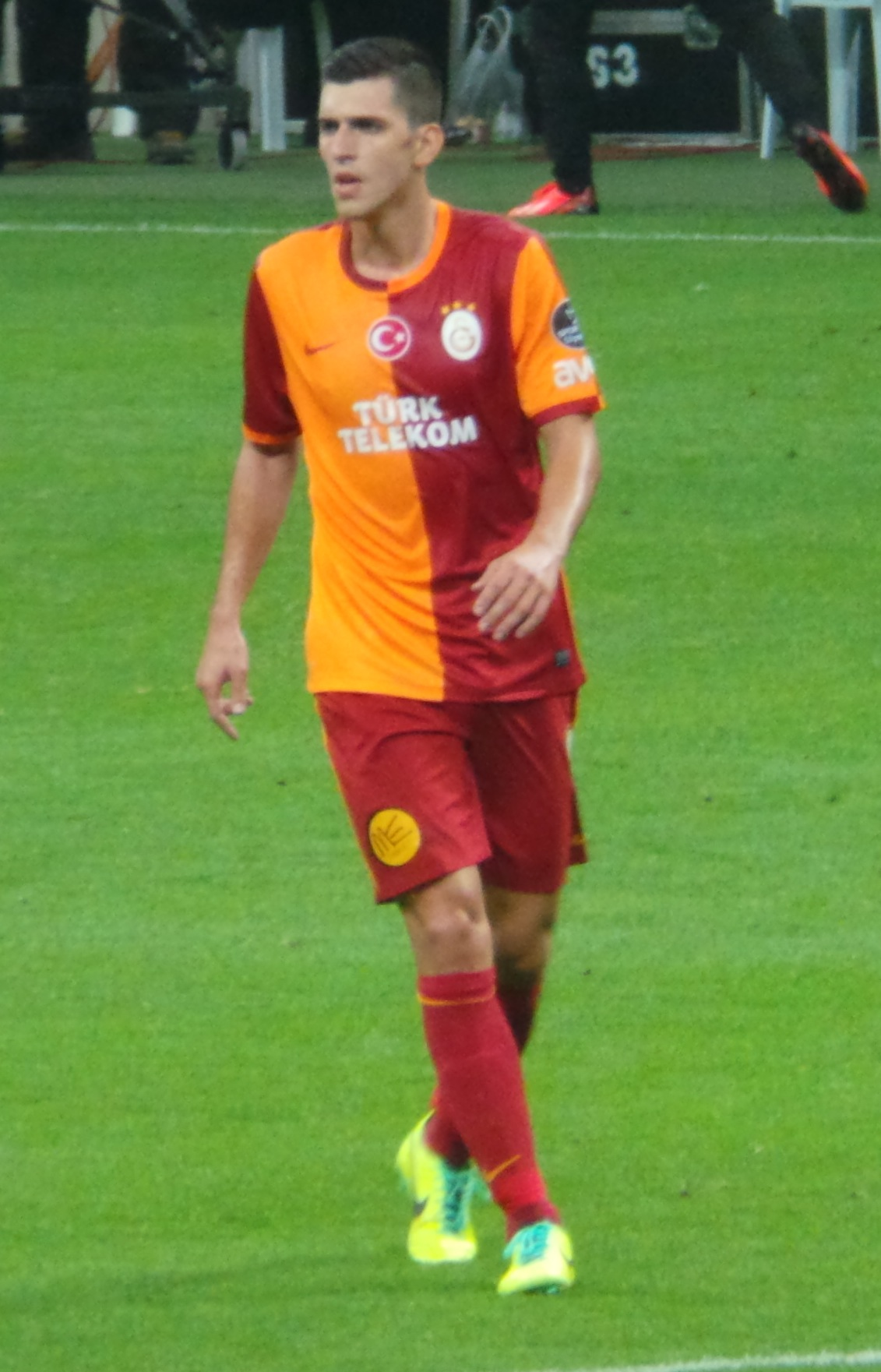 Ceyhun Gülselam with Galatasaray.